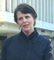 Australian Democrats Senator Lyn Allison talks to the ABC cameras outside Treasury Building, Melbourne during the Palm Sunday nuclear disarmament rally. She is standing in front of the 100 metre peace banner unfurled for the occasion.